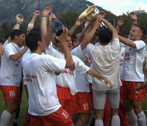 HŠK Zrinjski Mostar - champion of Premier league of Bosnia and Herzegovina 2004./2005.